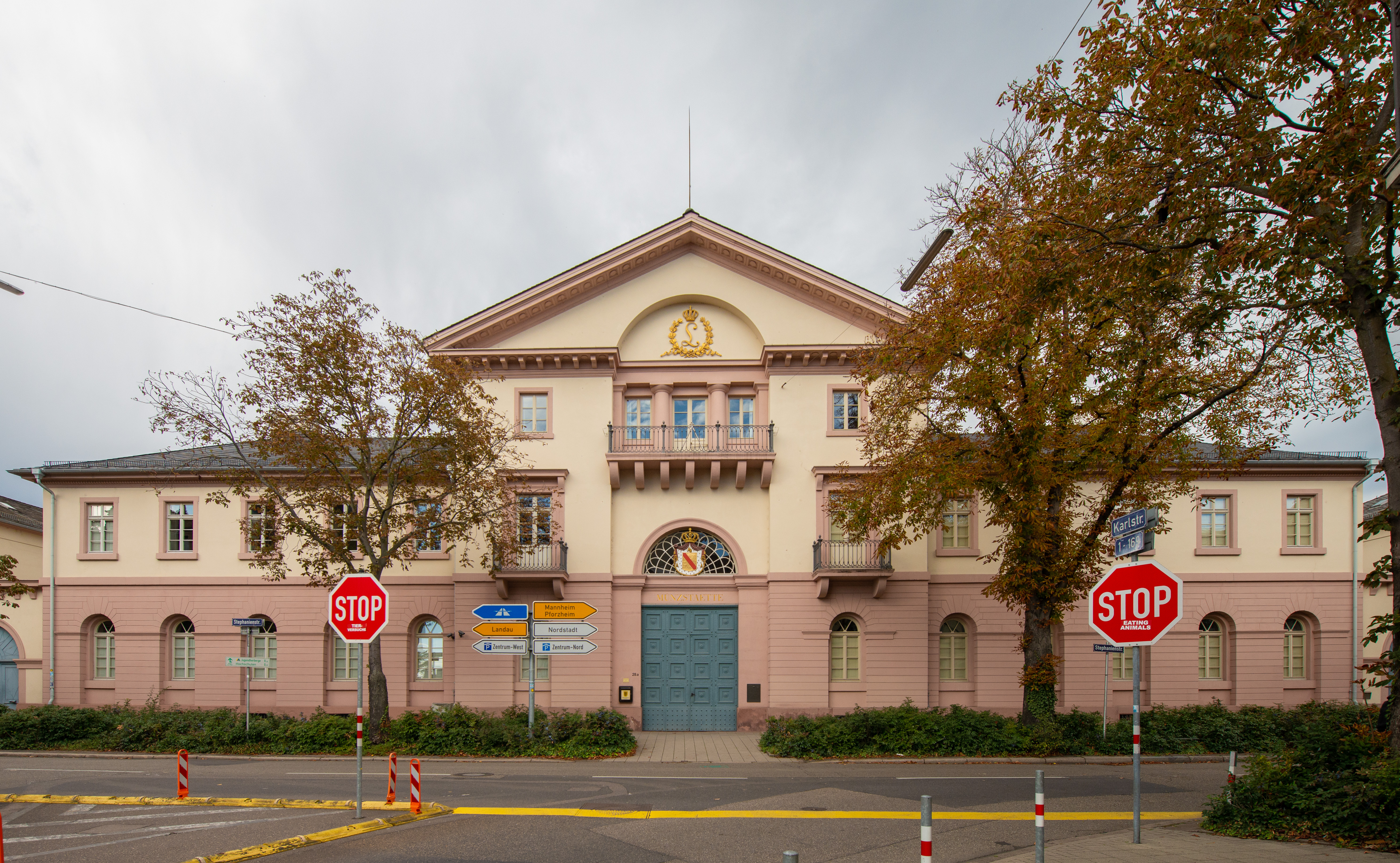 Innenstadt-West, Staatliche Münze Karlsruhe. Wikidata has entry Q2324450 with data related to this item.